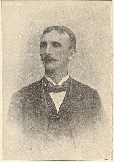 Karel Sáblík, 4. hasičská kronika.jpg.